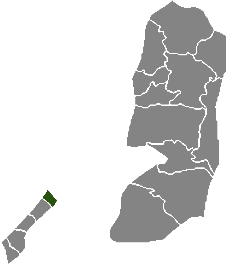 Palestine governorate North Gaza